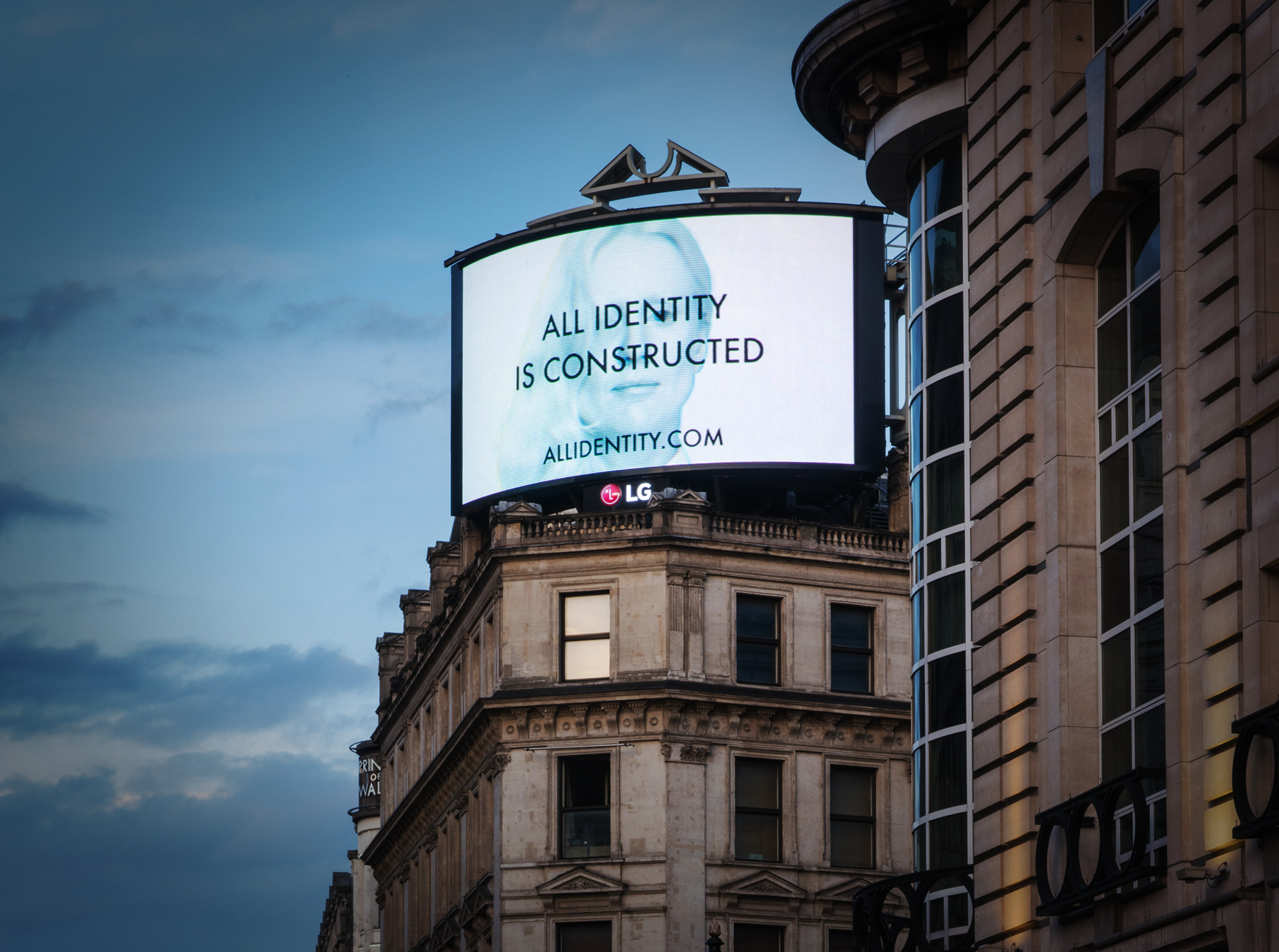 Digital billboard in Piccadilly Circus London displaying public art project 'All Identity Is Constructed' by artist Martin Firrell.